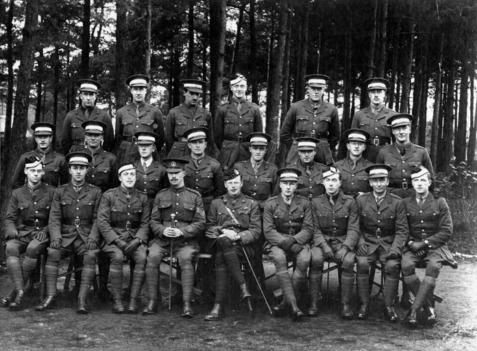 A photograph taken in December 1917 of the men of the 20th Officer Cadet Battalion.